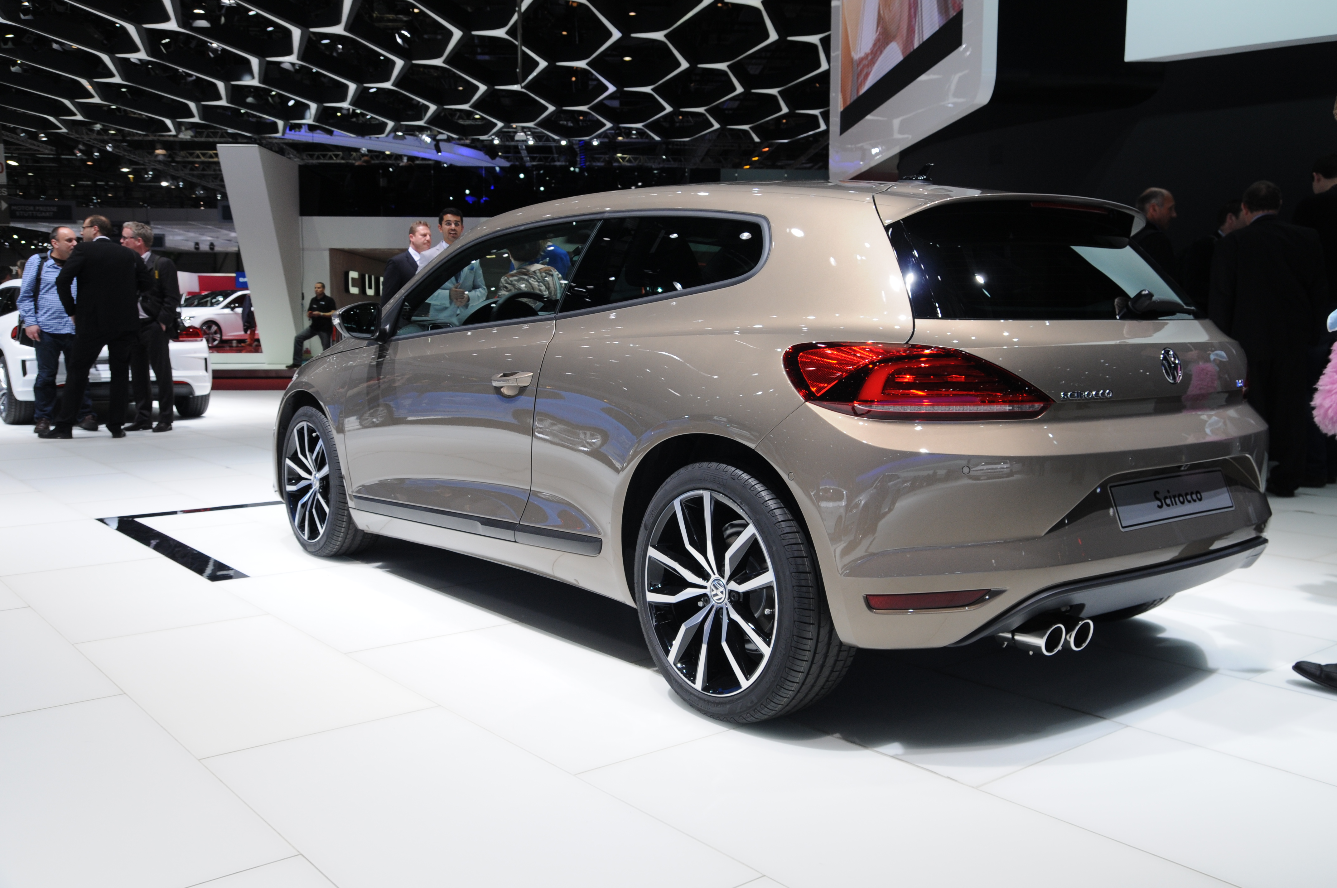 Geneva Motor Show 2014 (photo taken on the first press day)